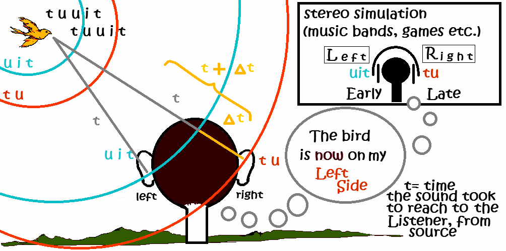 Diagram showing how stereo & duo sound works